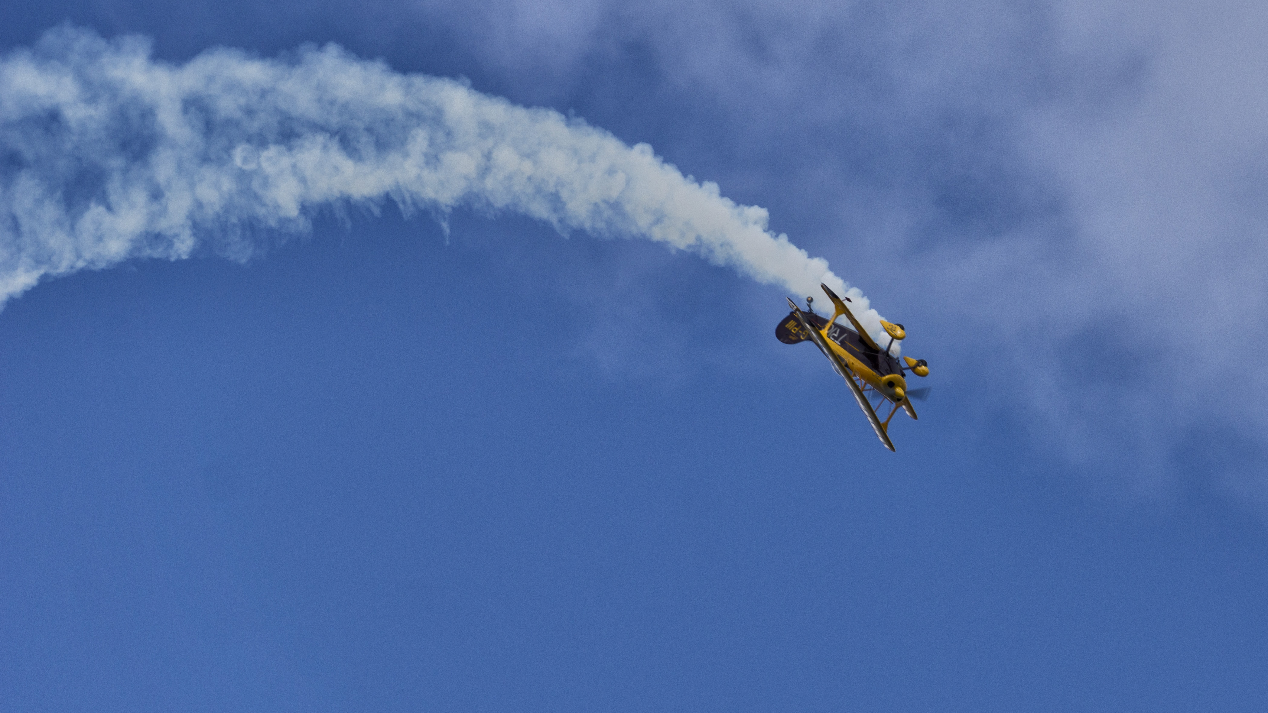 Pitts Special SIE